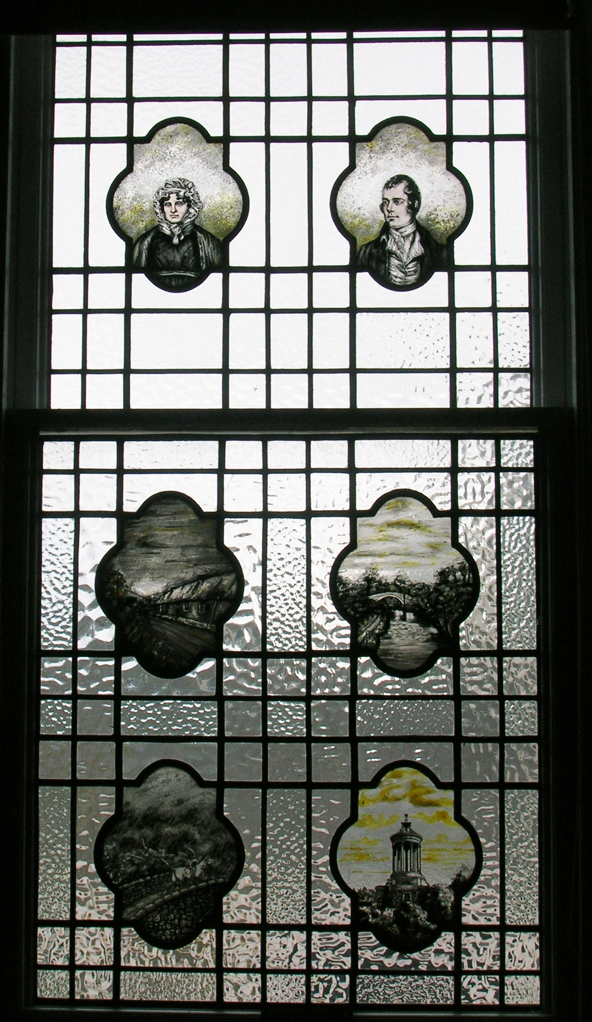 The Burns family, Irvine Burns Club, North Ayrshire, Scotland